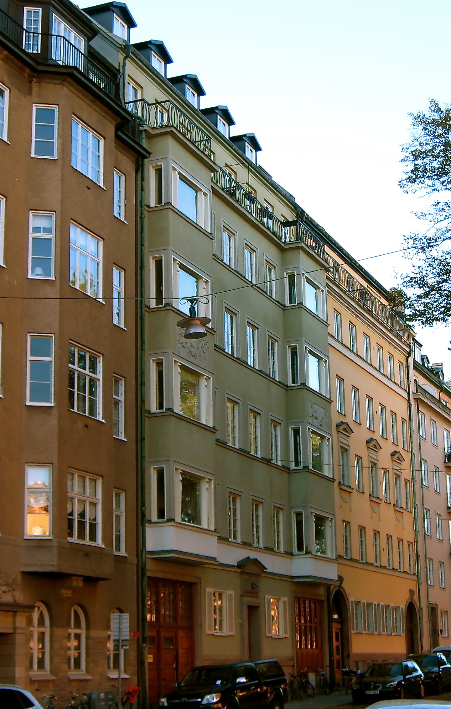 Linnégatan 96 ritat av Björn Hedvall och uppfört 1928-29